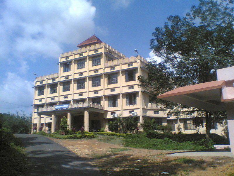 Front view of the Mechanical Department at RIT Campus.